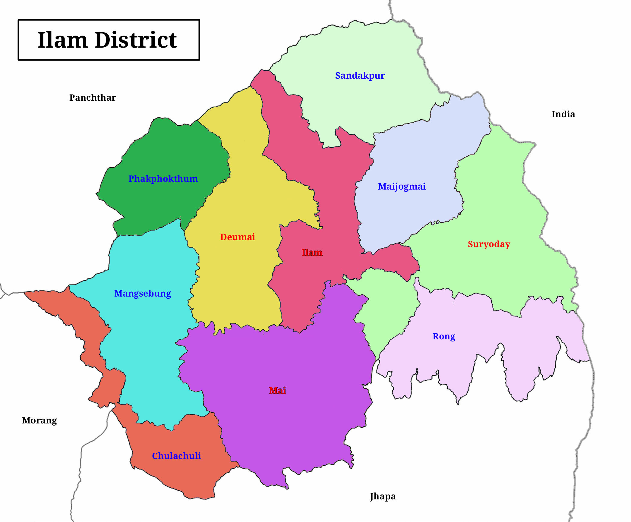 Map of Ilam district with divisions (municipalities)